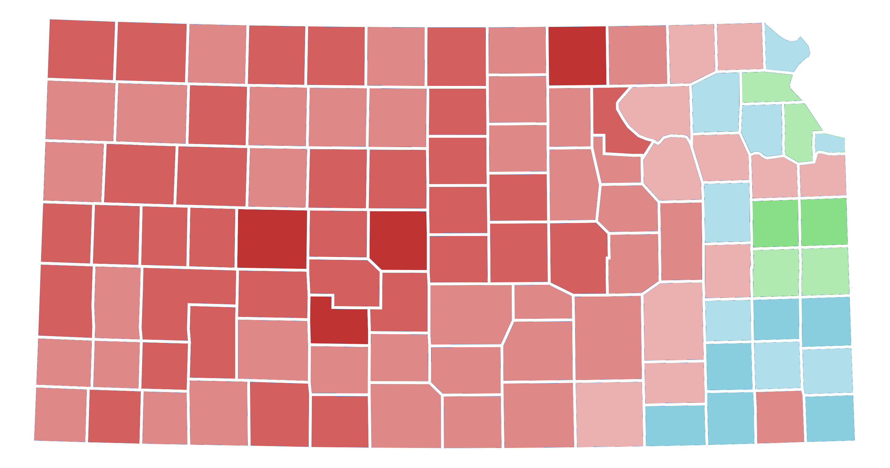 County-by-county map of the results of the Republican primary for the 2020 United States Senate election in Kansas